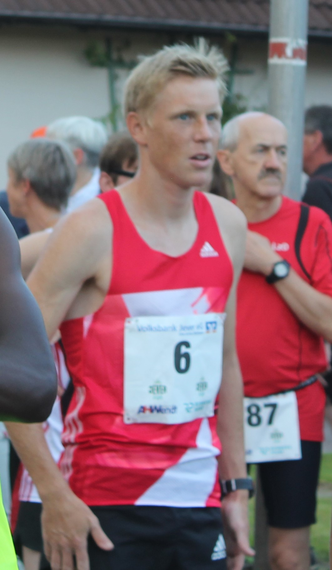 Steffen Uliczka 2016 in Schortens